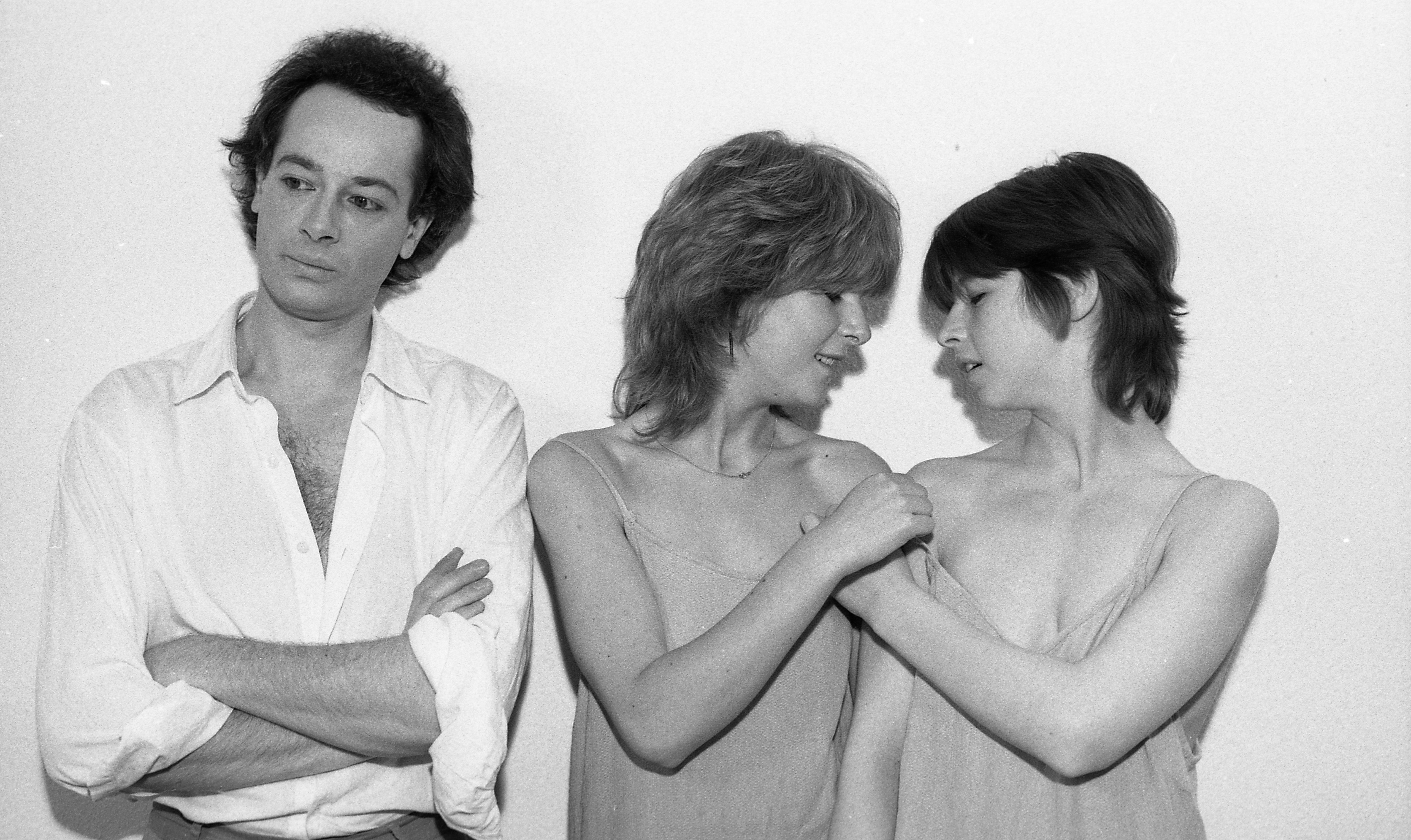 Walter Verdin / Hilde Van Roy / Dett Peyskens ©WV1982